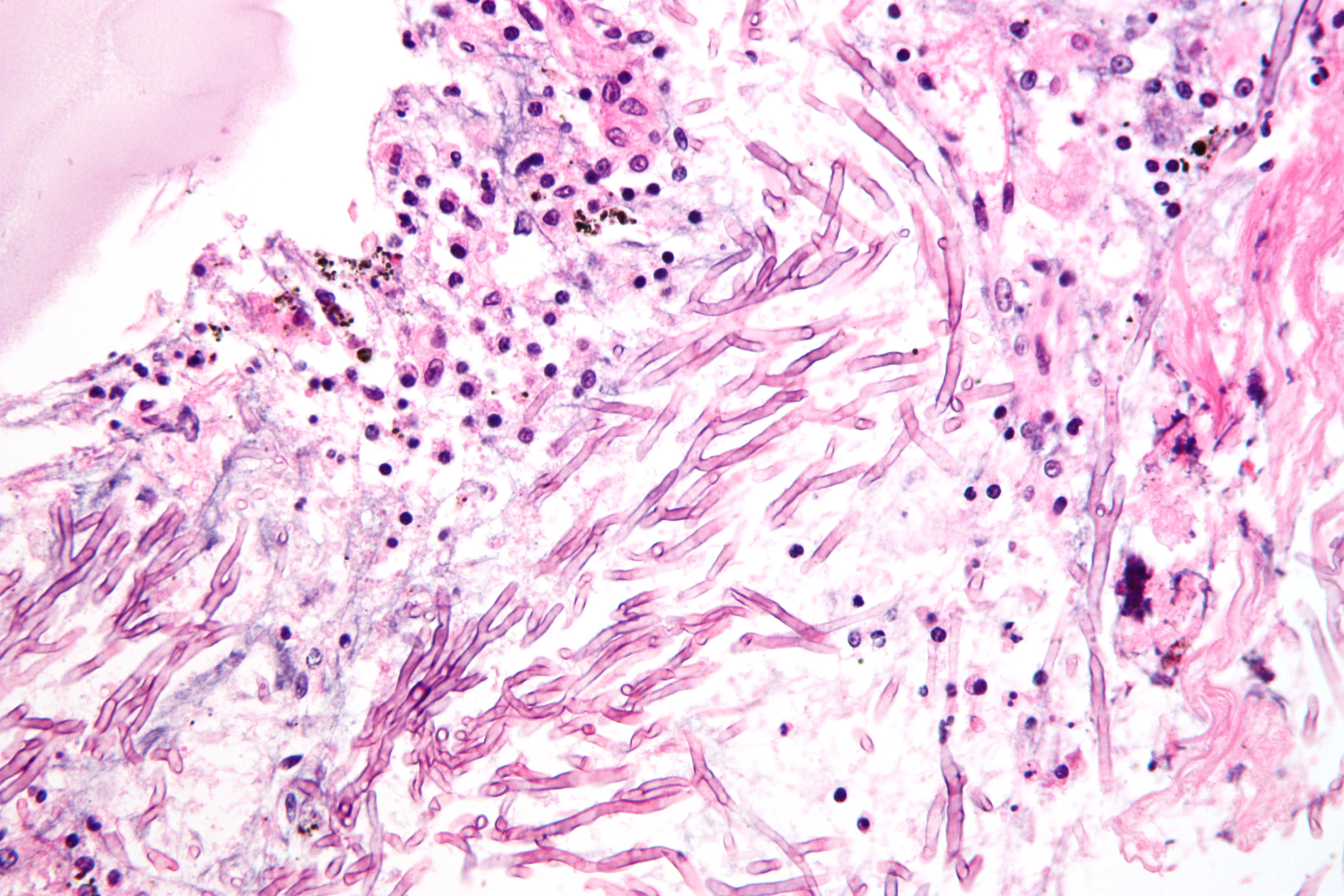 Micrograph of aspergillosis. H&E stain. Aspergillus hyphae have a uniform thickness and typically branch at a 45 degree angle. Related images Aspergillosis - cytology Zygomycosis - cytology